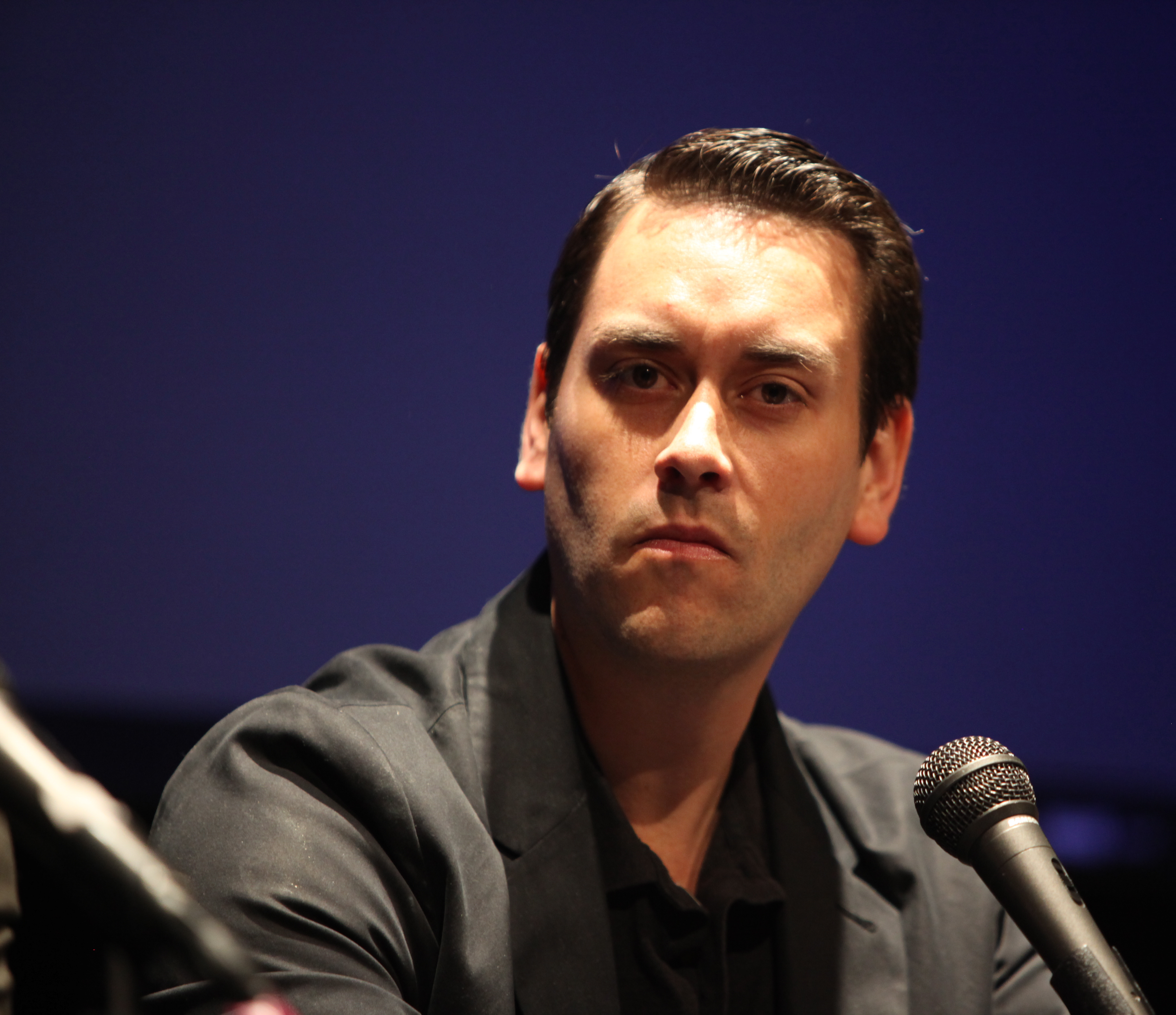 (CC) Brian Solis. Feel free to use this picture. Please link back to the original picture on Flickr and credit as shown above.